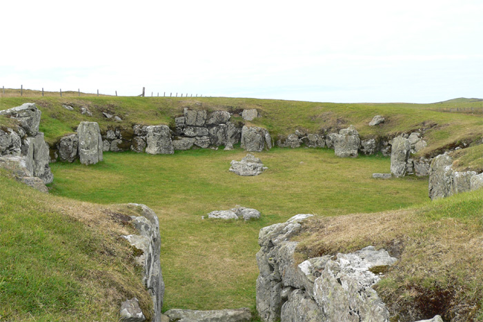 Stanydale 'Temple', Mainland, Shetland, Scotland